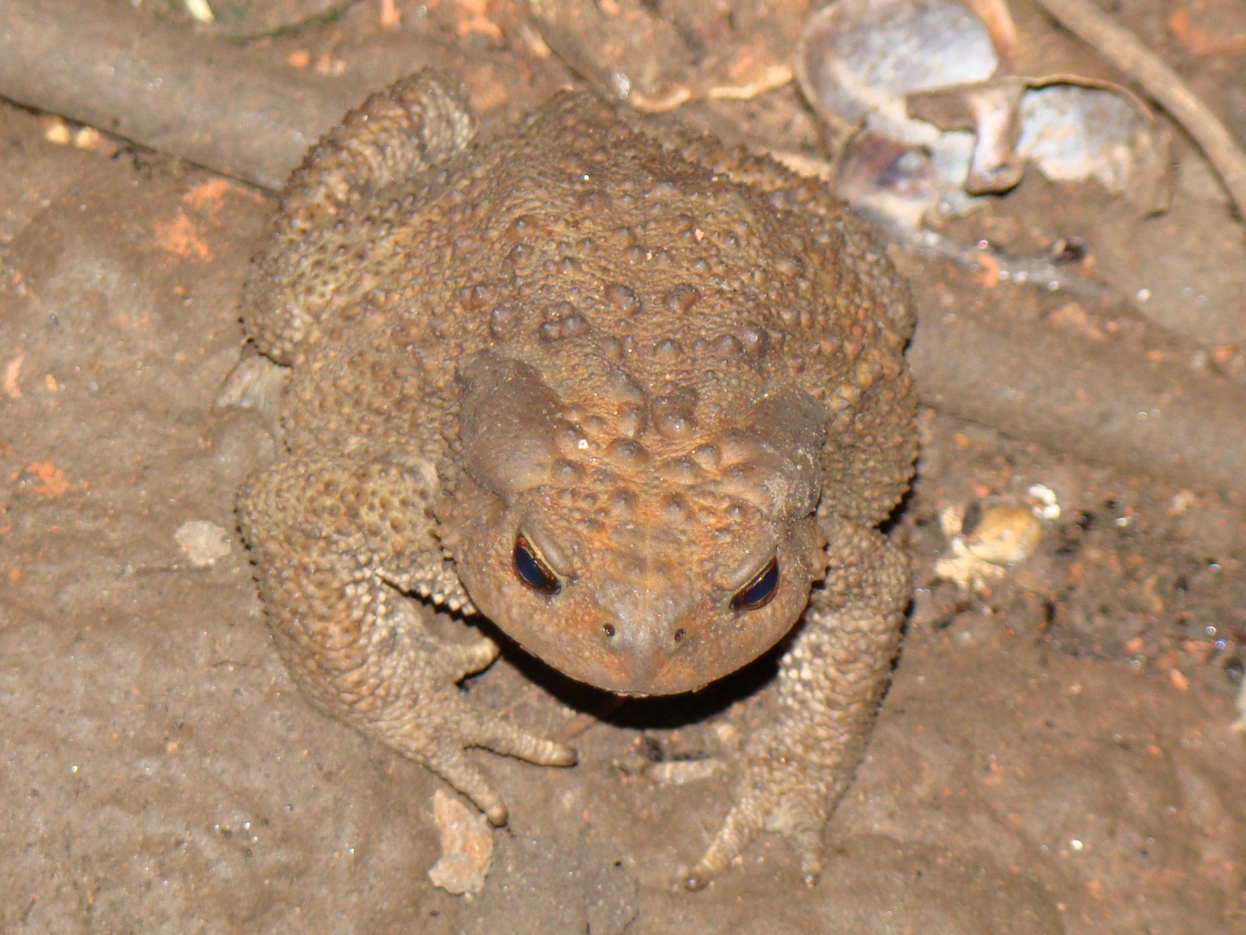 Caucasian Toad (Bufo verrucosissimus). Russia, Krasnodar kray, Ust'-Labinsk.